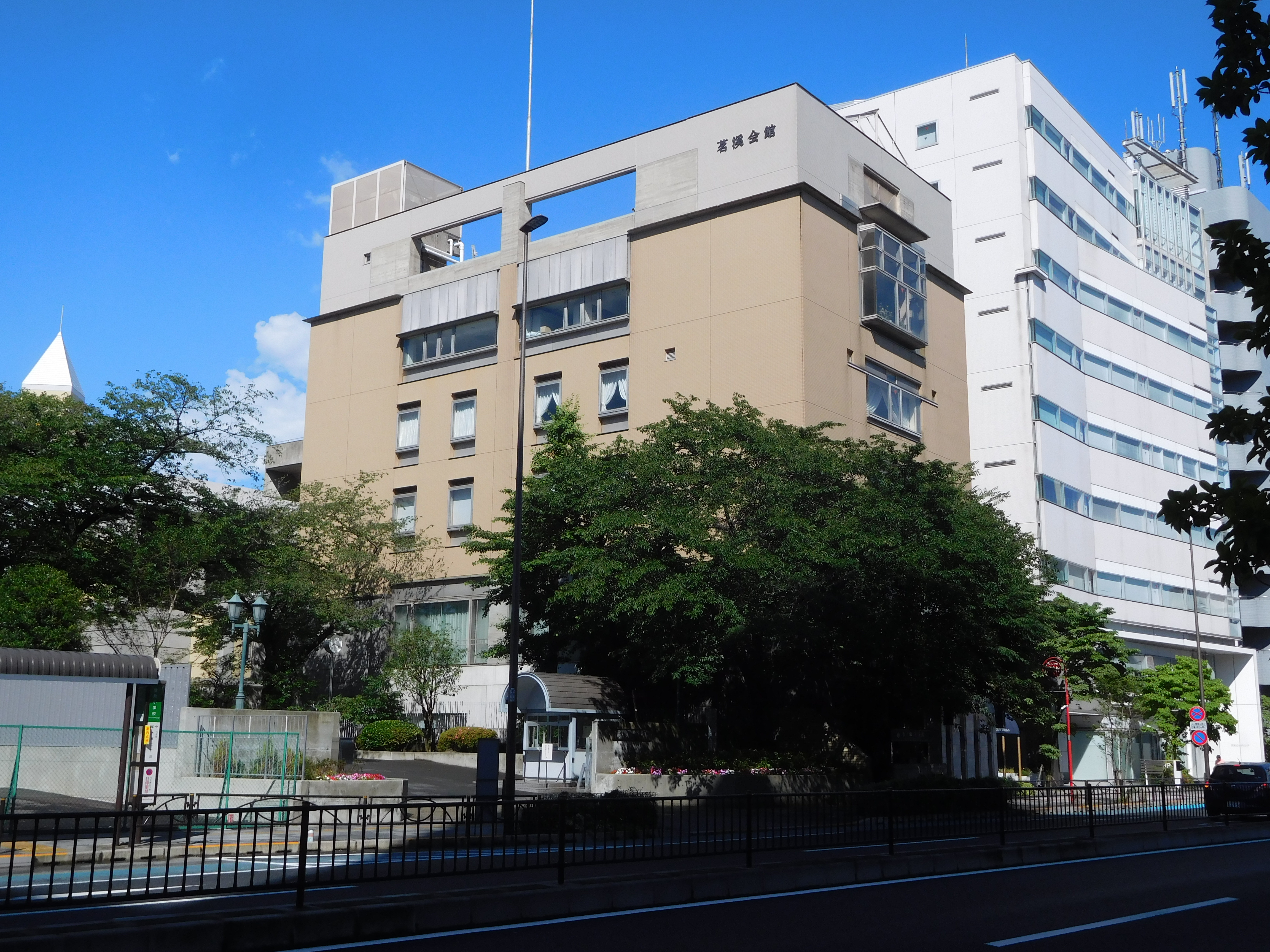 These buildings are Meikei Kaikans in Bunkyo, Tokyo, Japan. White building is "Meikei building", brown building is "Ka no Bi Meikei Kan".